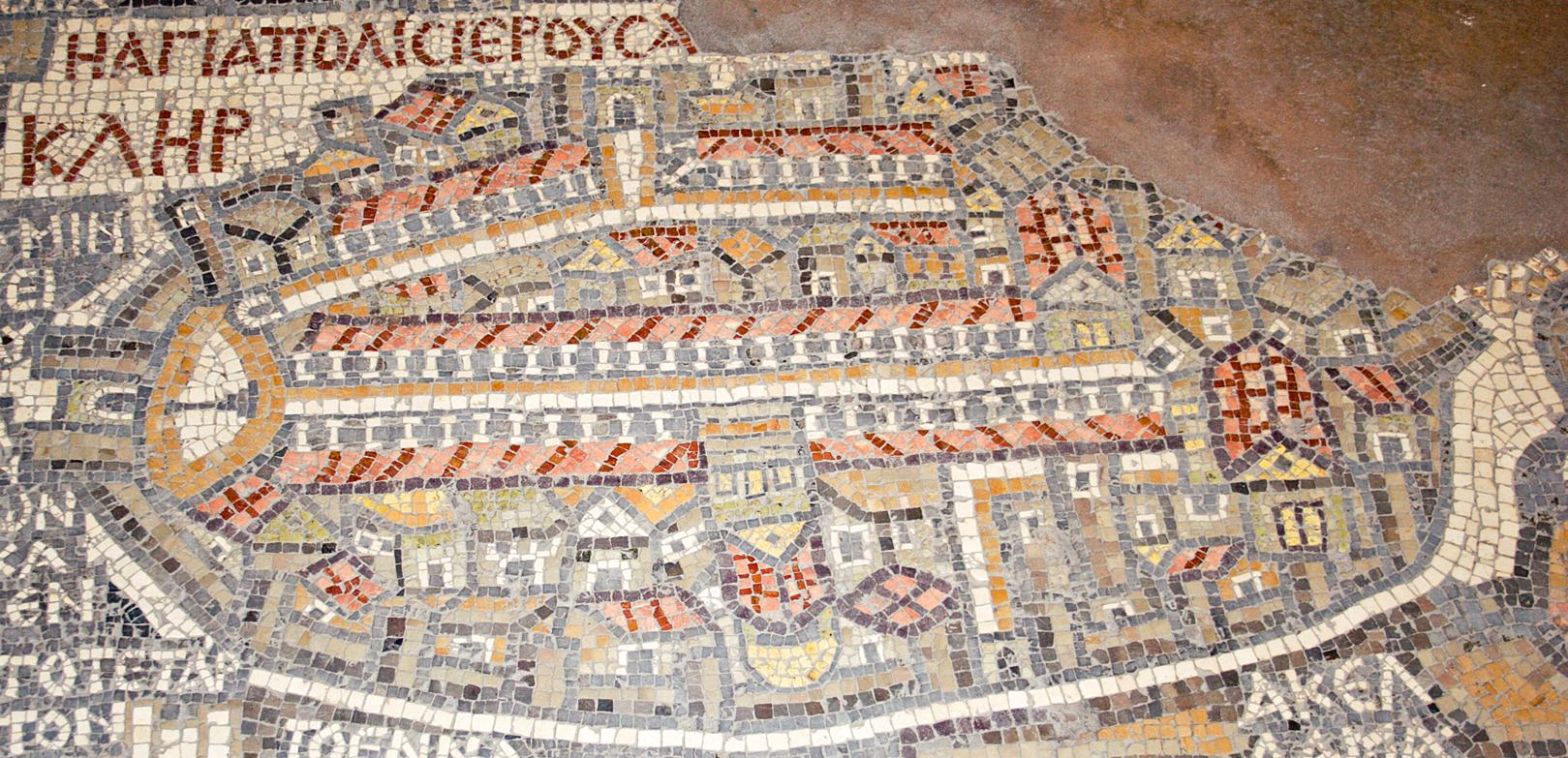 Close-up on the Jerusalem part of the Madaba map